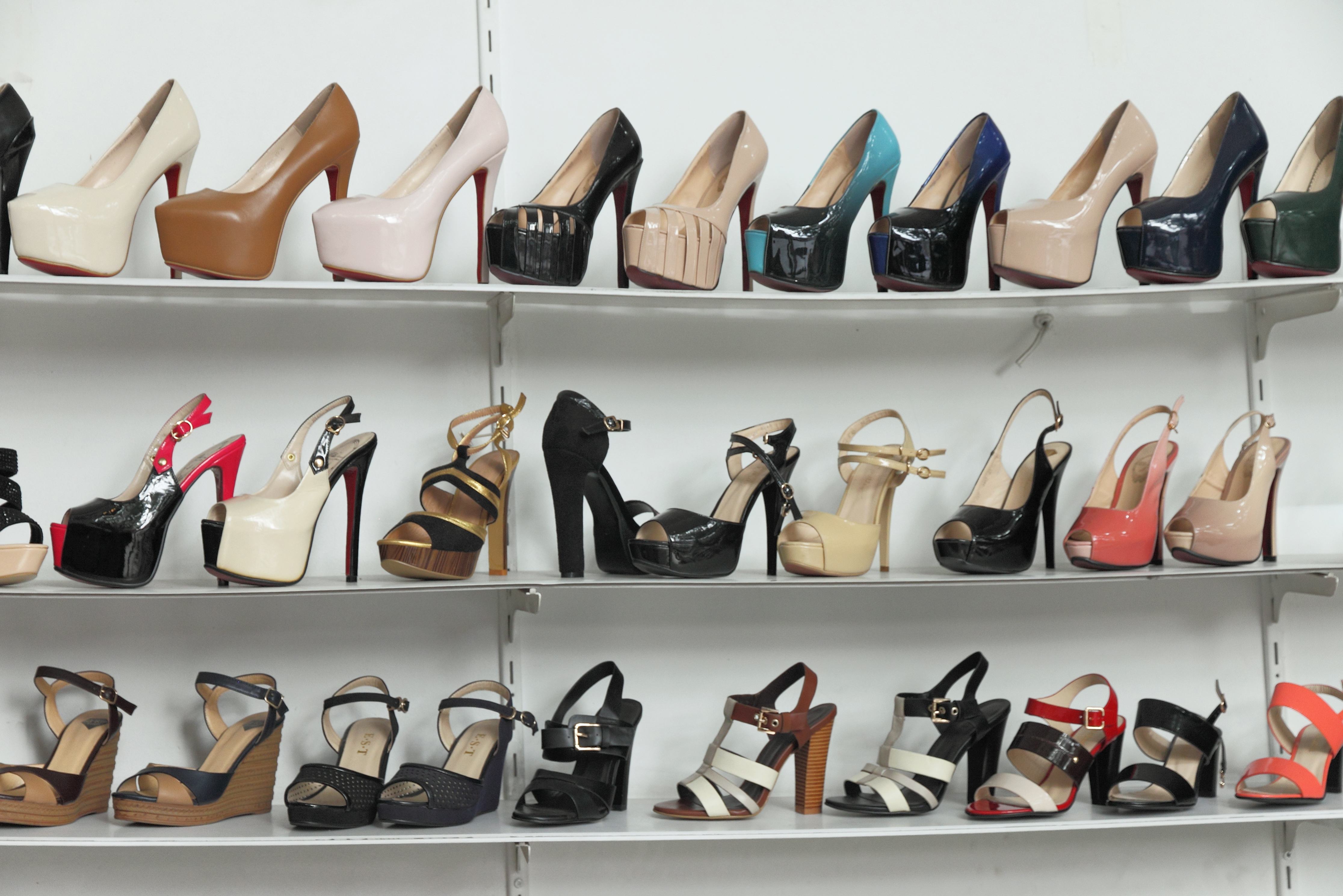 Women's high-heeled shoes at the shop window. Yerevan, Armenia.